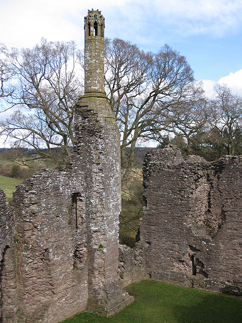 Tall, elegant 14th century chimney, Grosmont Castle Added to the castle by the Earls of Lancaster during their occupation, 1320 to 1360. Viewed from the curtain wall.